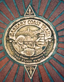 Barbary Coast Trail medallion